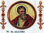 Portrait of Pope Agatho in the Basilica of Saint Paul Outside the Walls, Rome